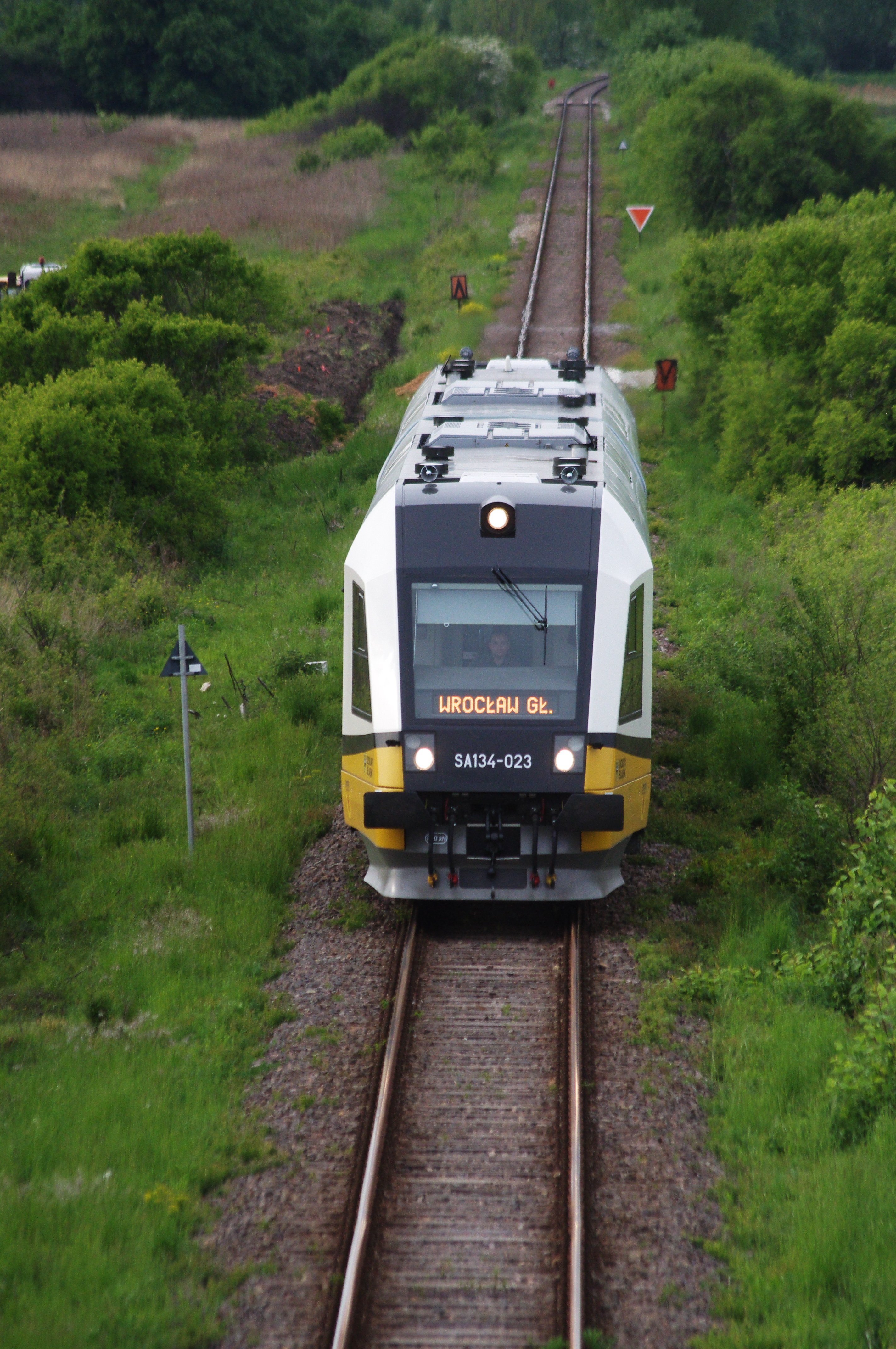 Railway Route 326 from Wrocław Psie Pole to Trzebnica. PESA SA134-023 heading towards Wrocław in the foreground.